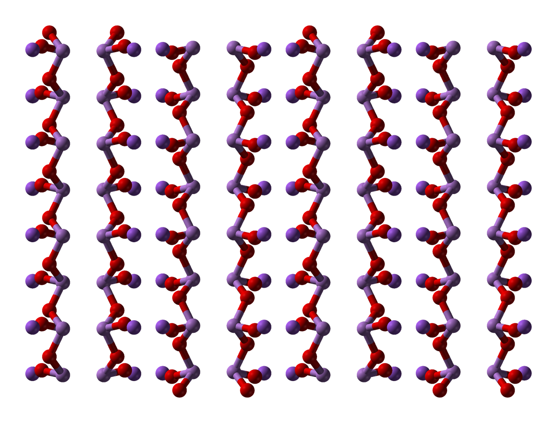 Ball-and-stick model of part of the crystal structure of sodium catena-arsenite, NaAsO2. X-ray crystallographic data from Acta Cryst. (2004). C60, m215-m218.